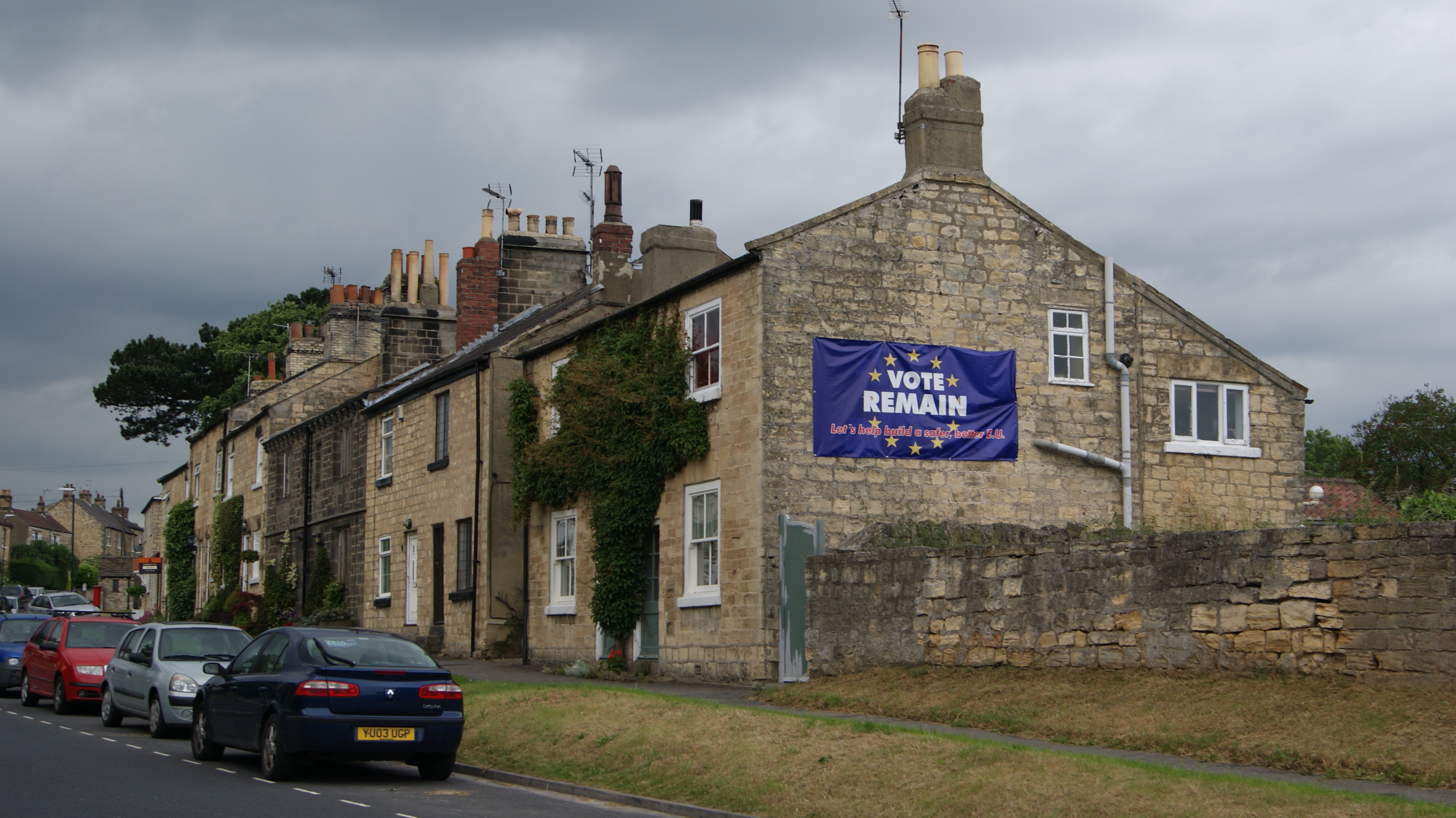 House baring 'vote remain' banner, Main Street, Kirk Deighton, North Yorkshire. Taken on the evening of Wedneday the 22nd of June 2016 (the eve of the referendum).